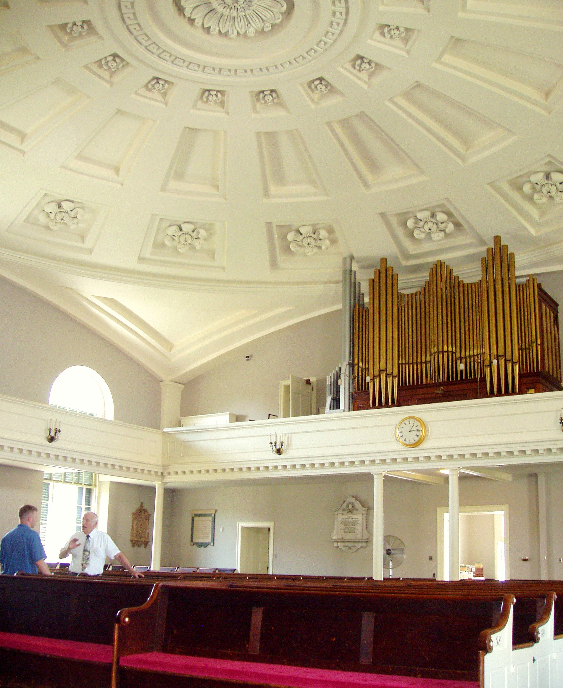 The United First Parish Church, Quincy, Massachusetts. Interior view. Built 1828, architect Alexander Parris. The graves of Presidents John Adams and John Quincy Adams are in a crypt beneath the church. Photograph taken by me, August 2005.